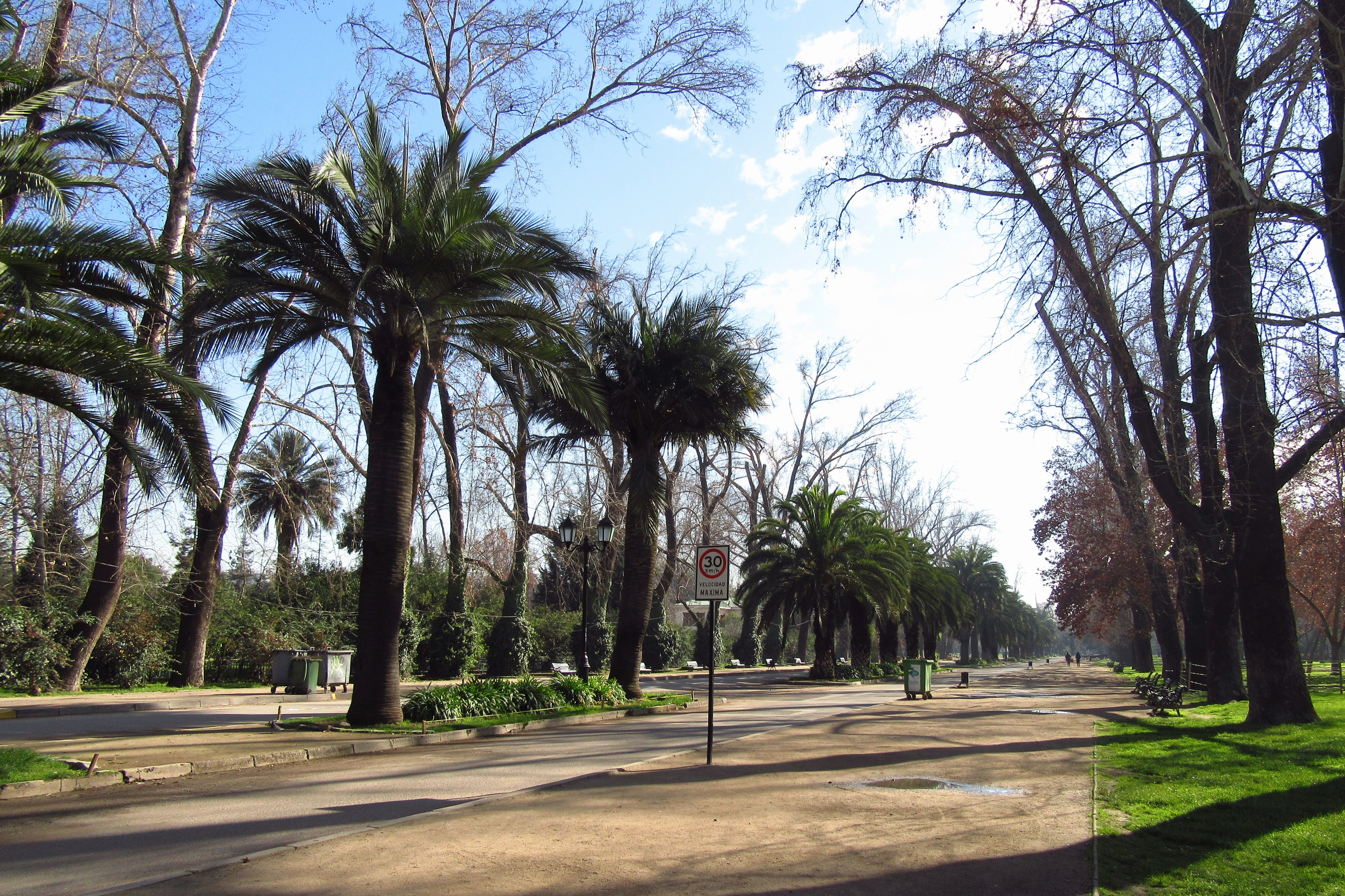 2017 in Santiago de Chile